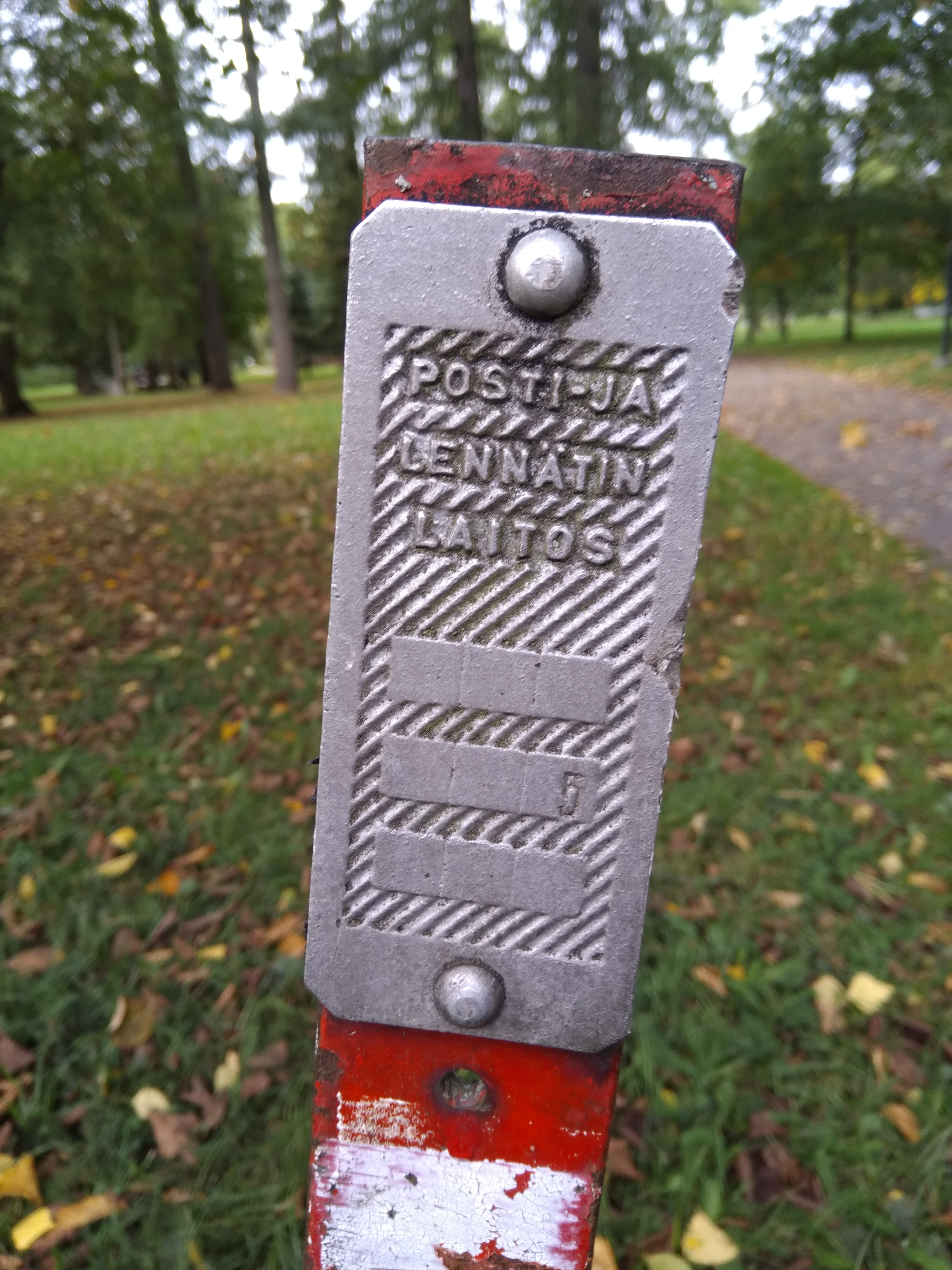 One Washington–Moscow hotline sign in Finland. There is still several sign. Sign mean "Post and telegraph department". This one is in Forssa